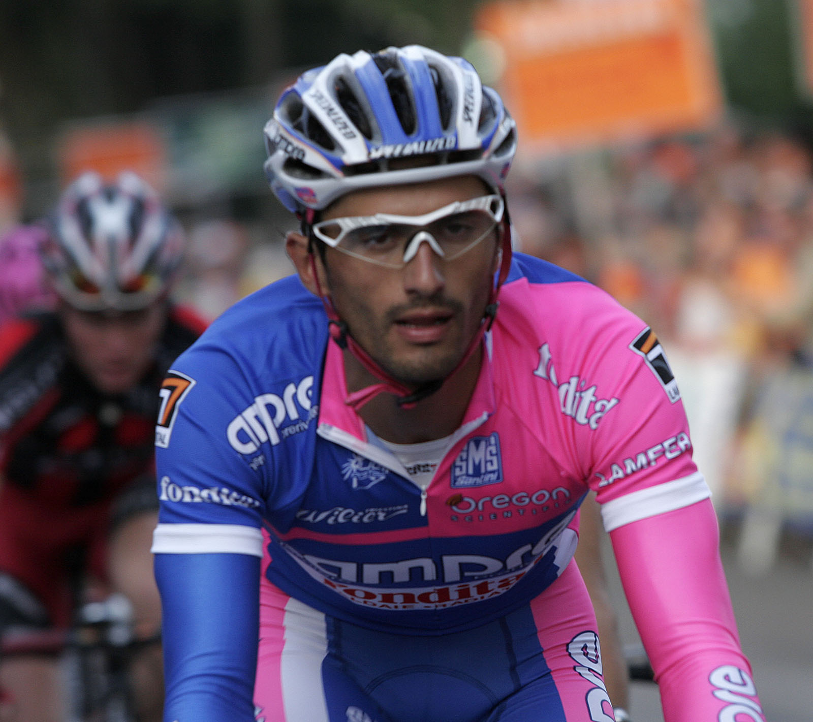 Daniele Bennati, the Italian cyclist, during the Entega Grand Prix 2007 in Lorsch (Hesse, Germany)